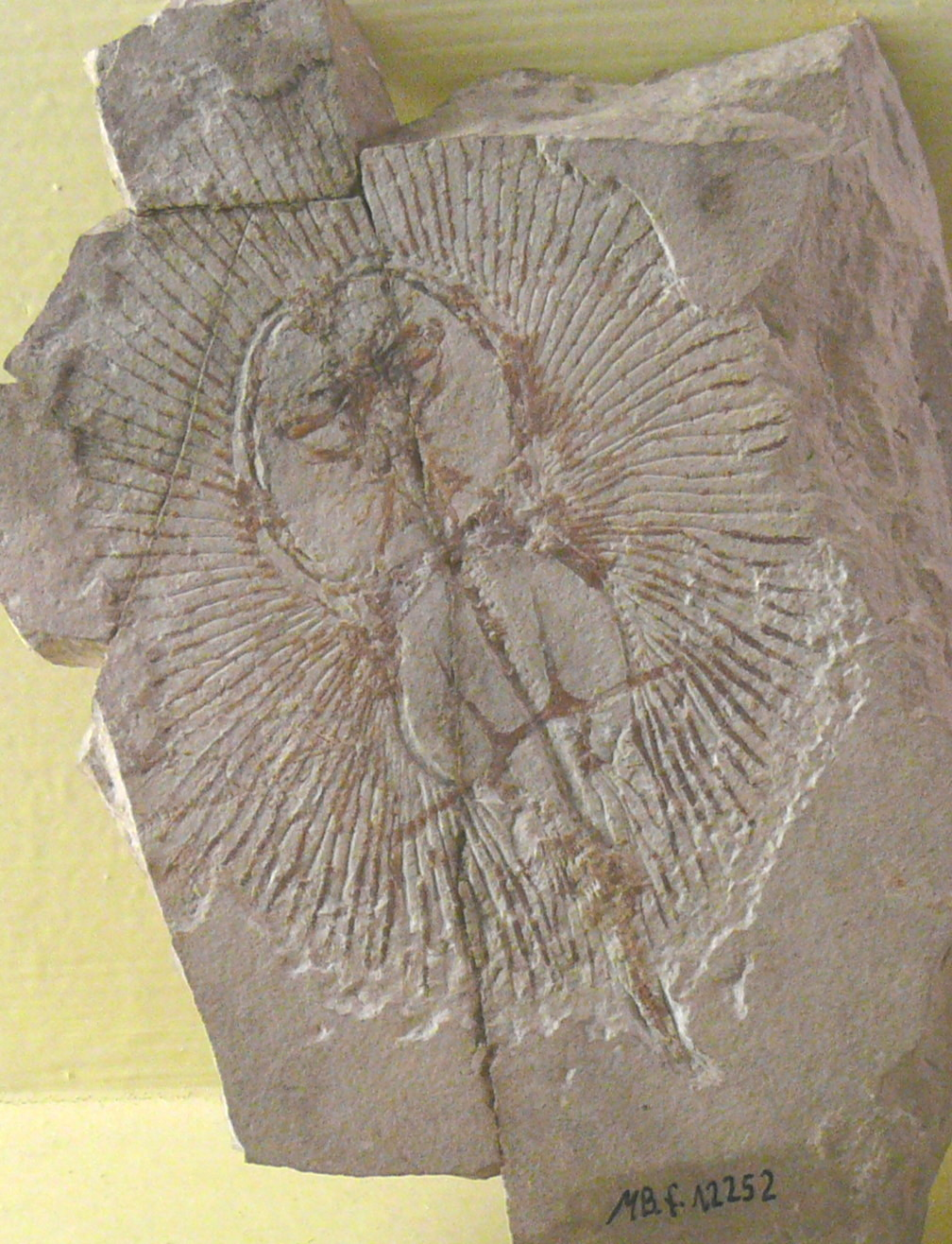 Cyclobatis major Upper Cretaceous, from Hakel, Libanon